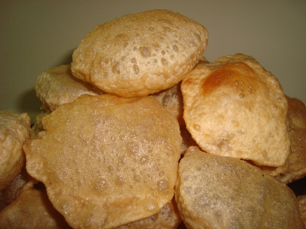 A puri or poori is an Indian unleavened bread. (food)